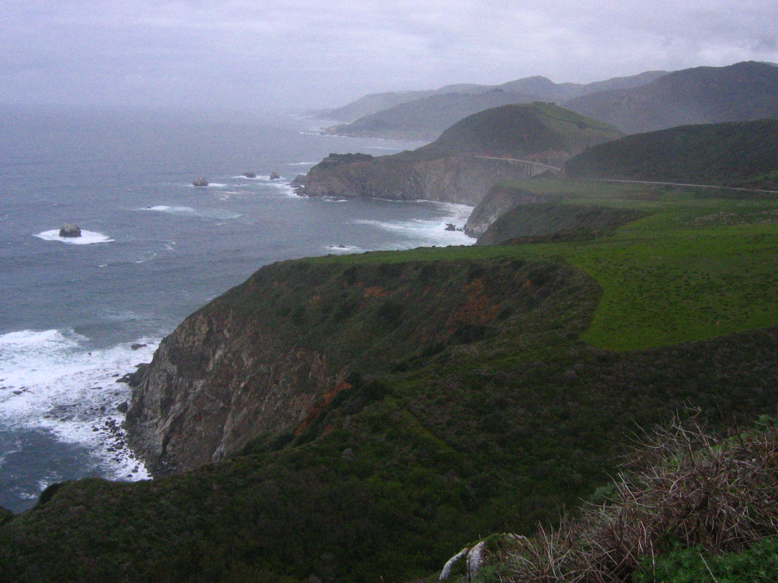 Description : Big Sur, California, April 2006 Author : own work, Urban. I took this picture on April 2006.